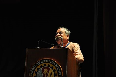 Piyush Pandey